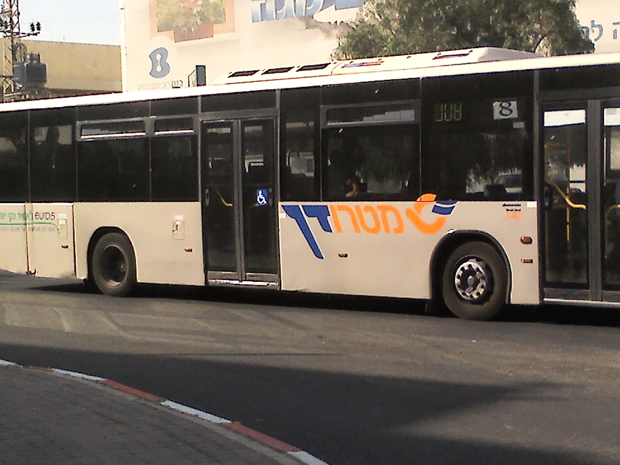 A bus of Metrodan bus company, Beersheba, Israel